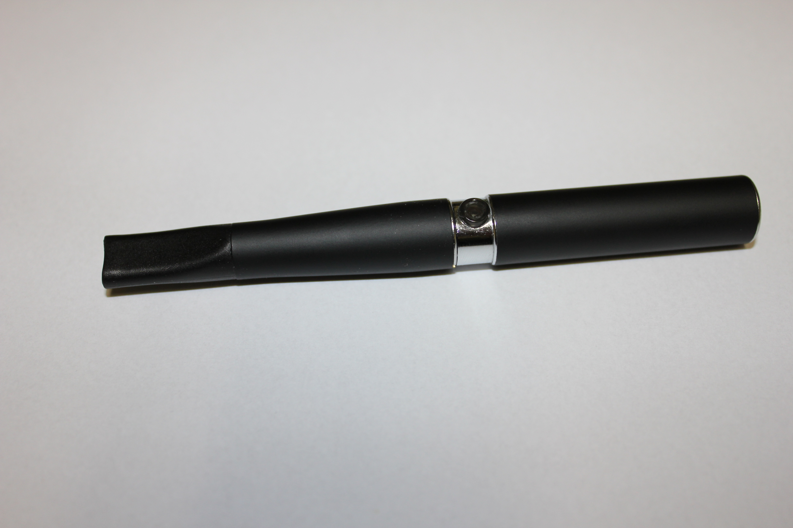 e-cigarette eGo - A